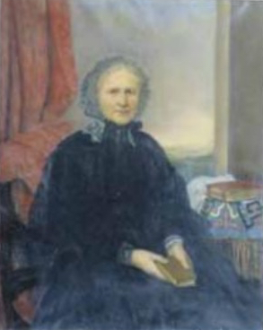 Zoé Cesbron-Lavau (Moricet), par Augustine Frilet de Châteauneuf